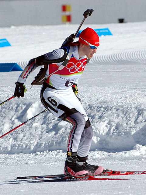 Kati Wilhelm at the 2006 Olympics in Torino.